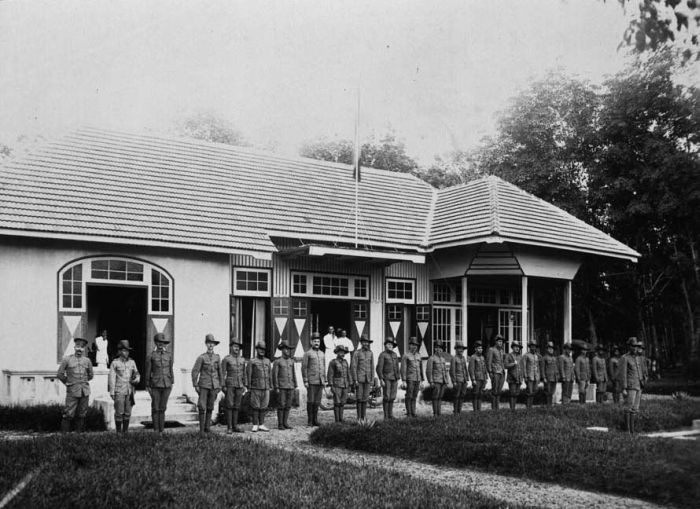 Volunteer corps in front of the club of the Batang Toroe rubber plantation after shooting matches